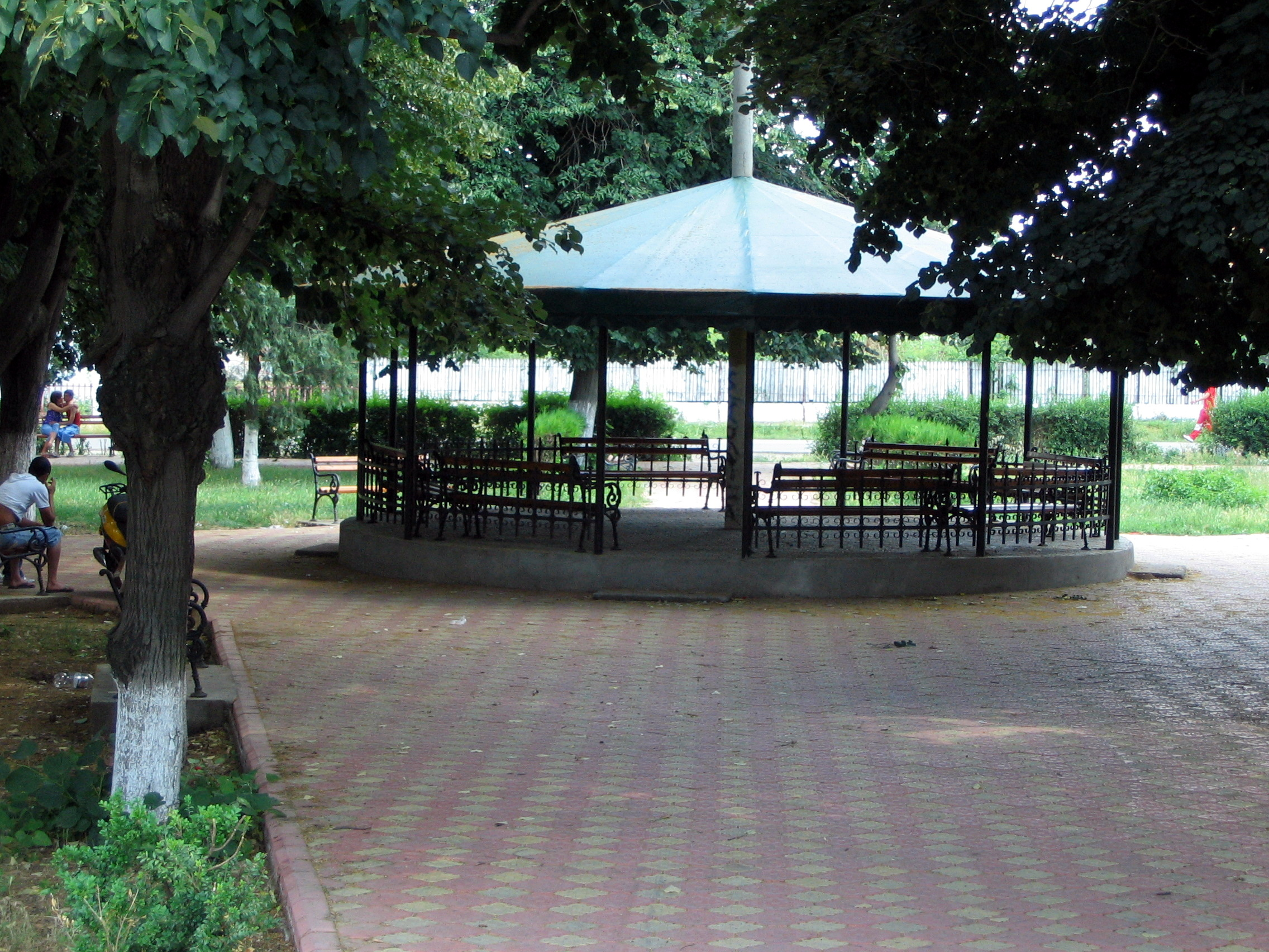 The park in Însurăţei, Brăila, Romania